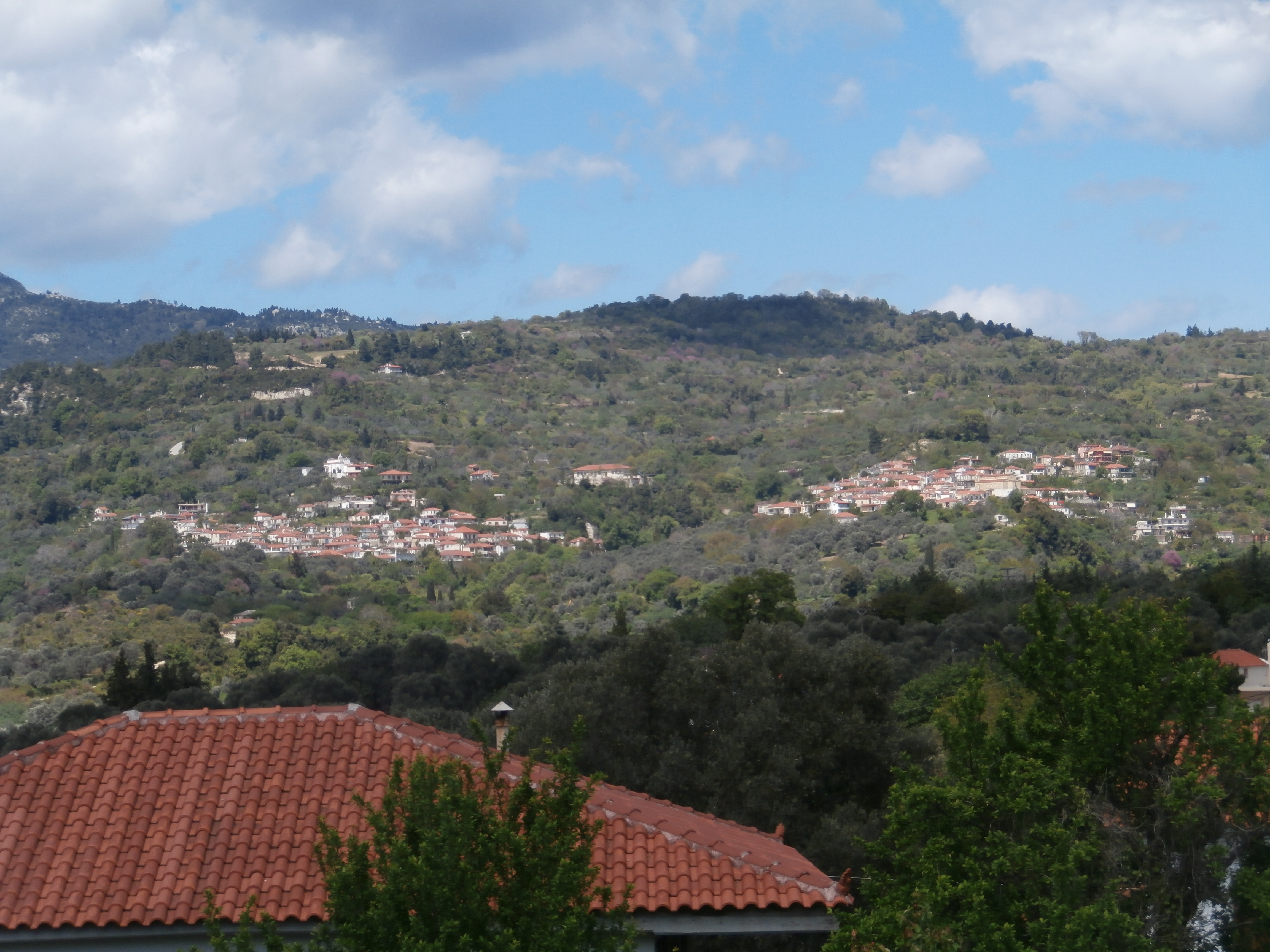 Vitala as seen from Pyrgos